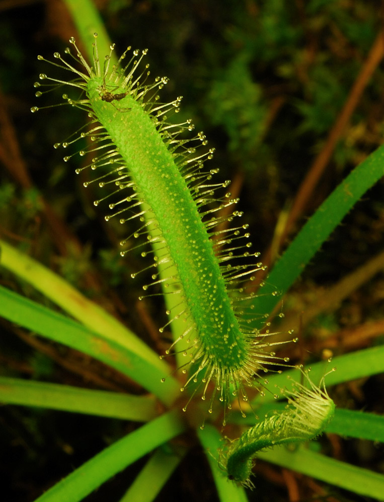 Drosera capensis var. alba digesting a mosquito